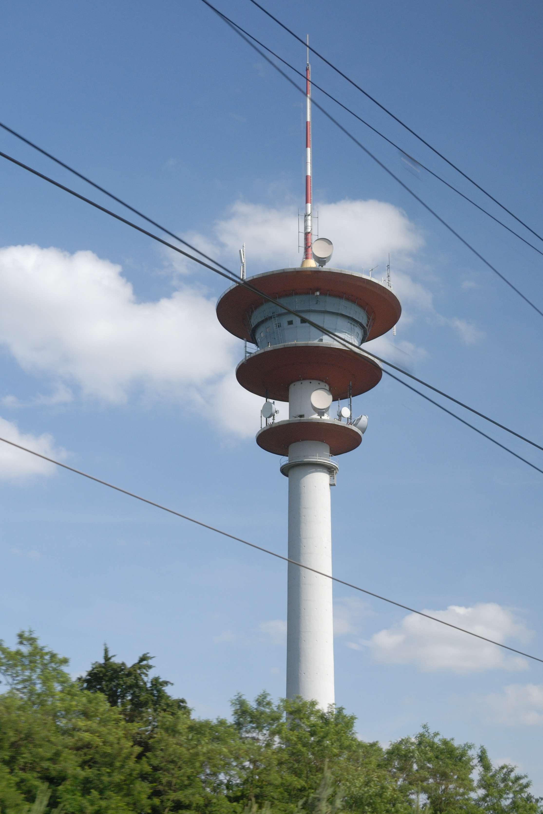 Radio tower Waghäusel-Wiesental. Image taken from an ICE train.